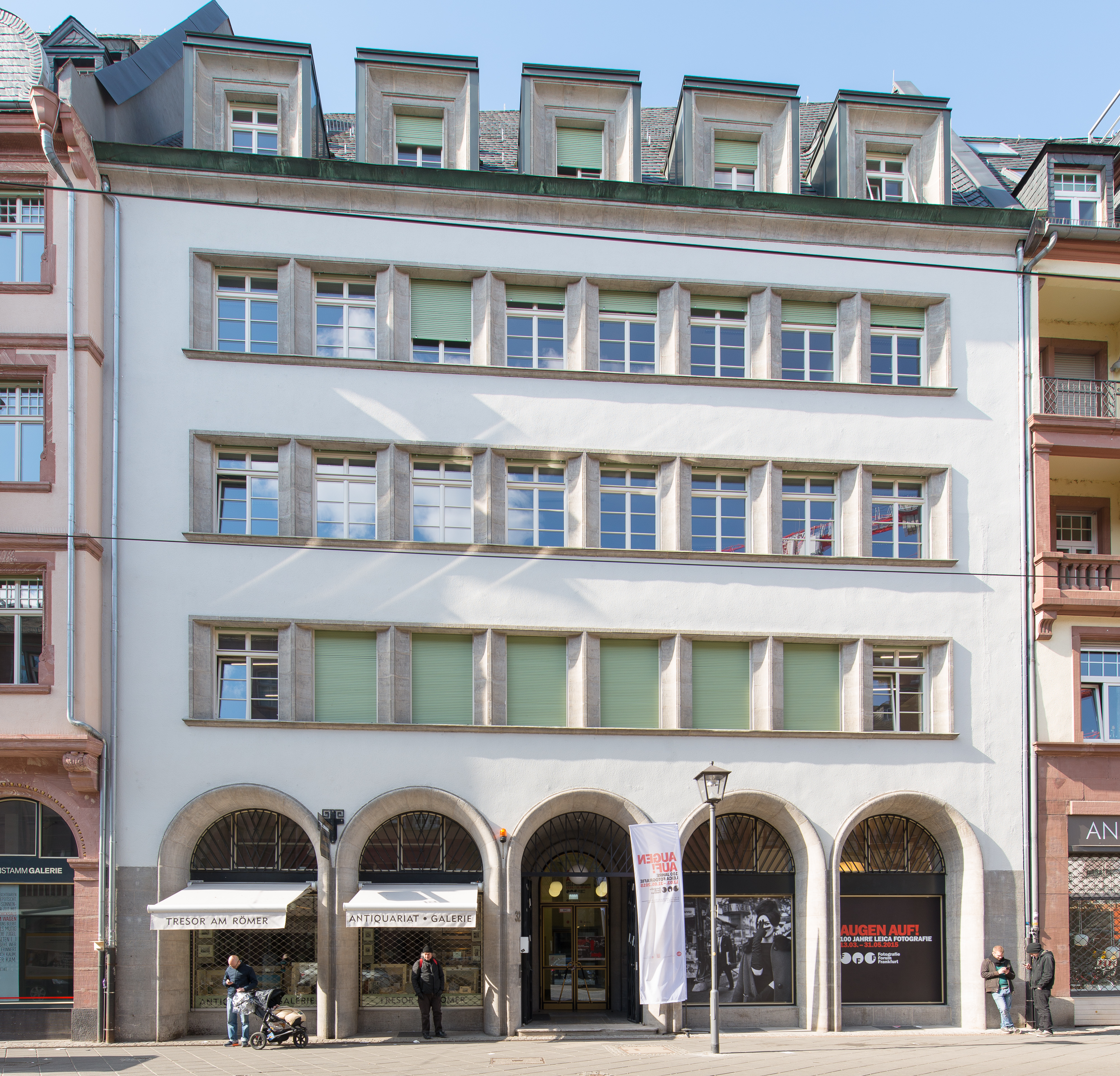 Frankfurt on the Main, Braubachstraße 30-32, Heussenstamm Foundation